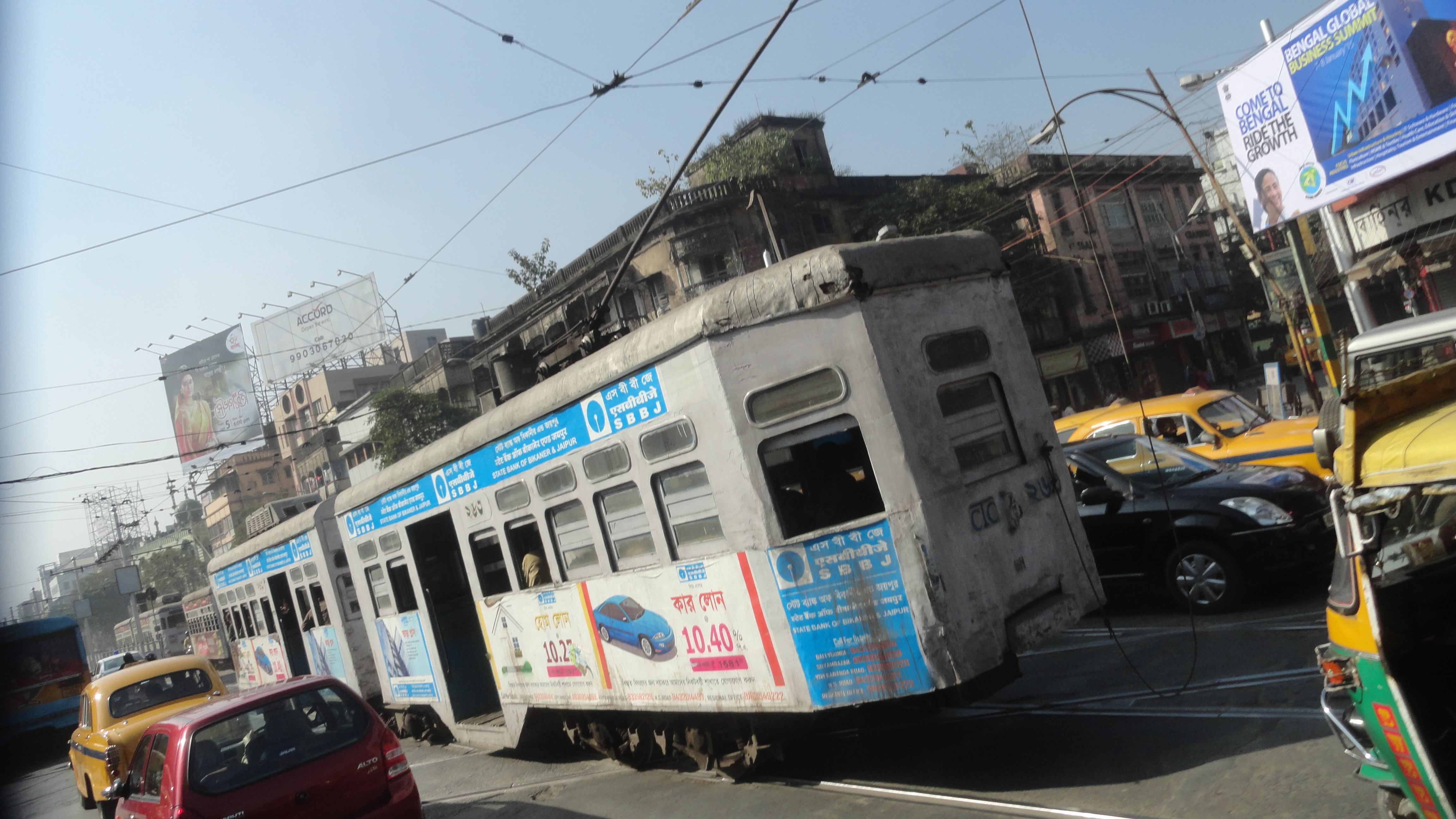 A Tram in kolkata road